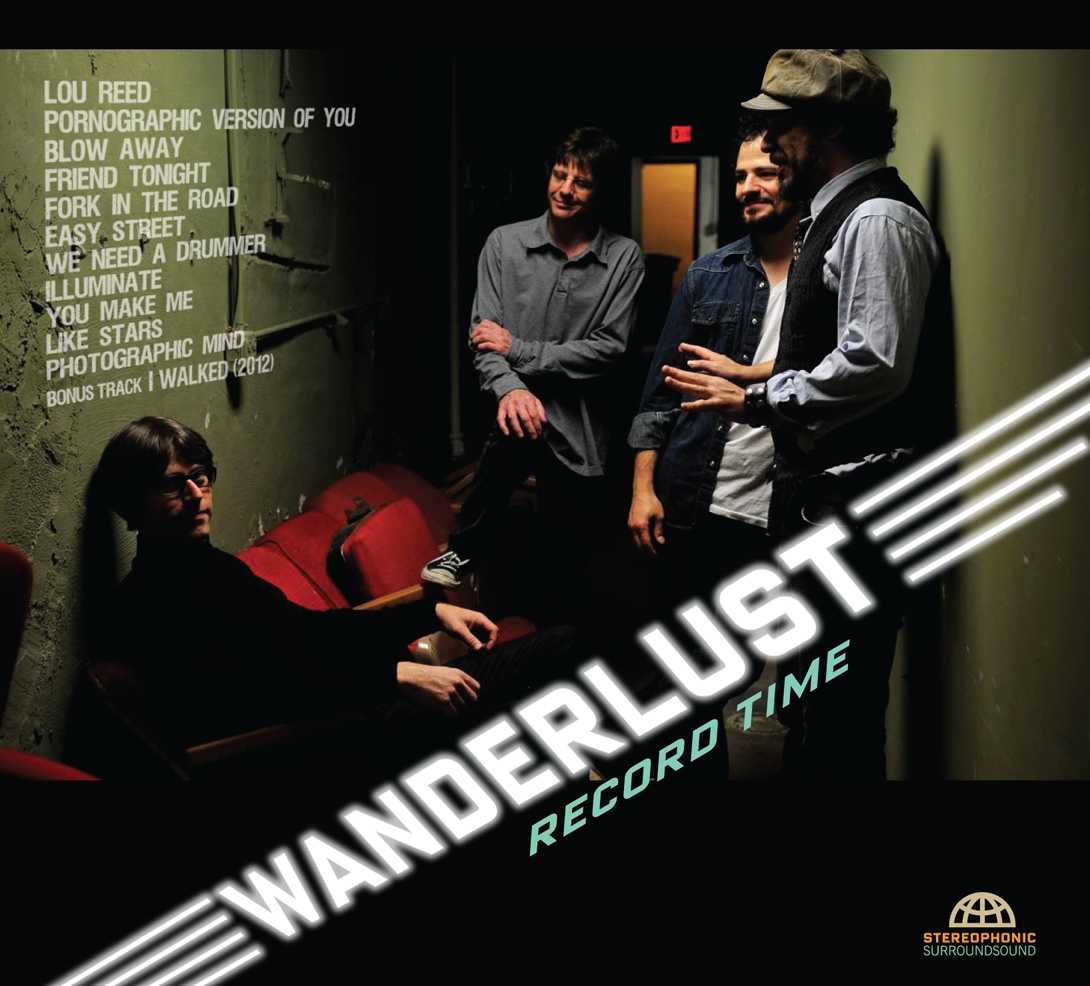 Wanderlust "Record Time" cd cover